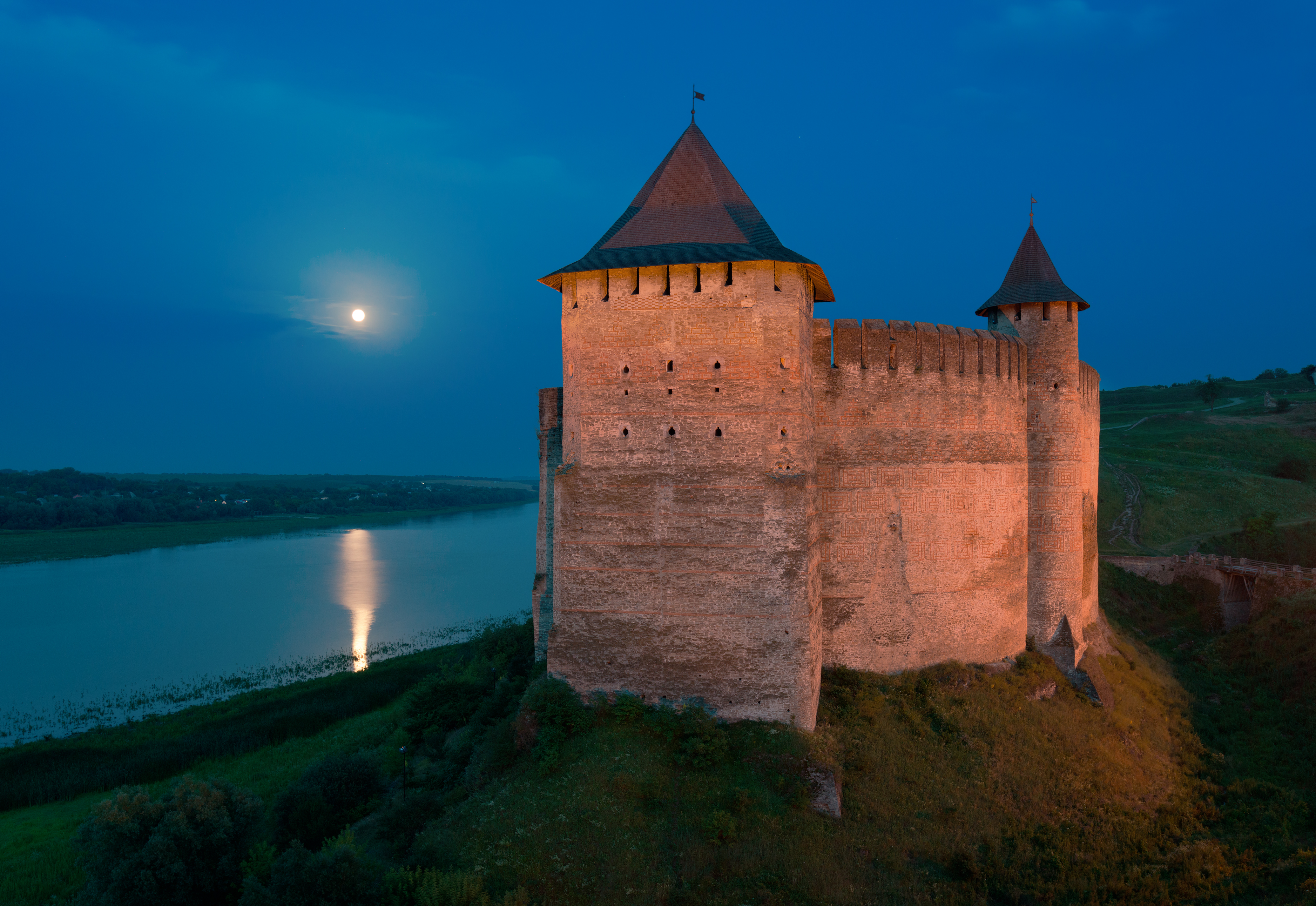 Khotyn Fortress under the light of the full moon